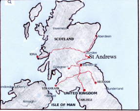 Map of Scotland showing main pilgrimage ways to St Andrews.